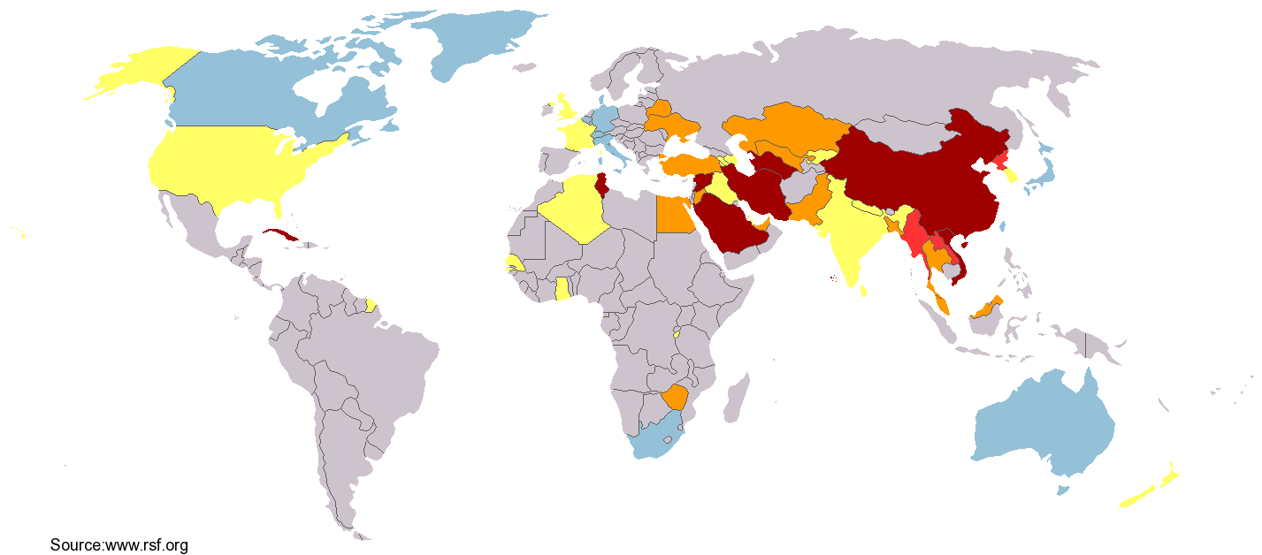 Obstacles to the free flow of information online.